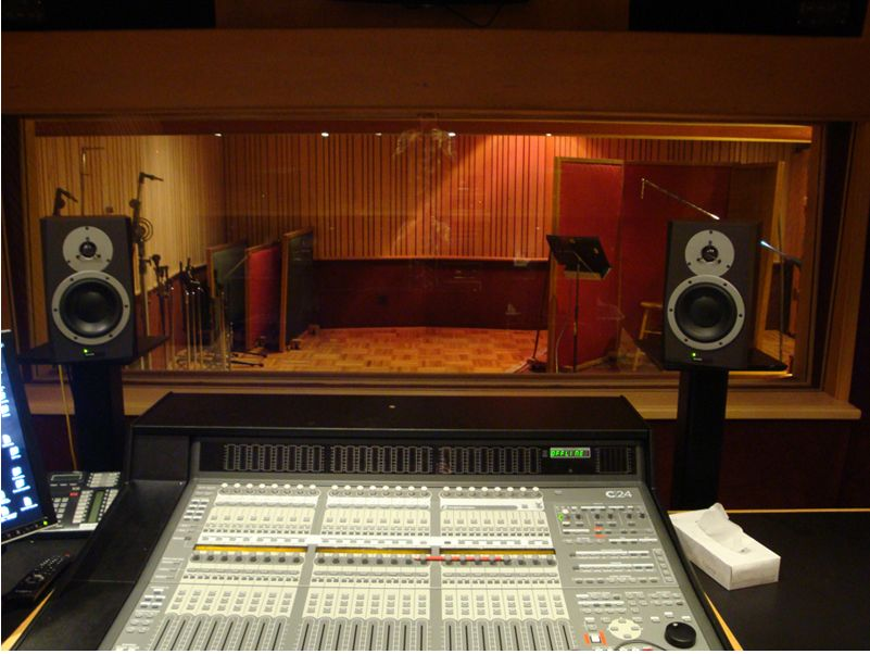 View from control room to live room of Studio B, Fantasy Studios